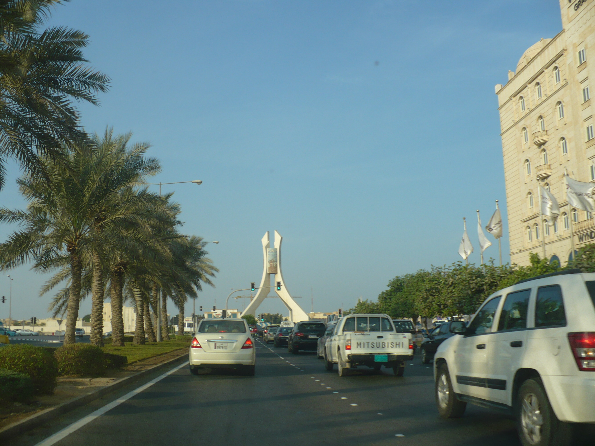 Sports Roundabout in Al Sadd neighborhood of Doha, Qatar. Close to Wyndham Grand Regency.